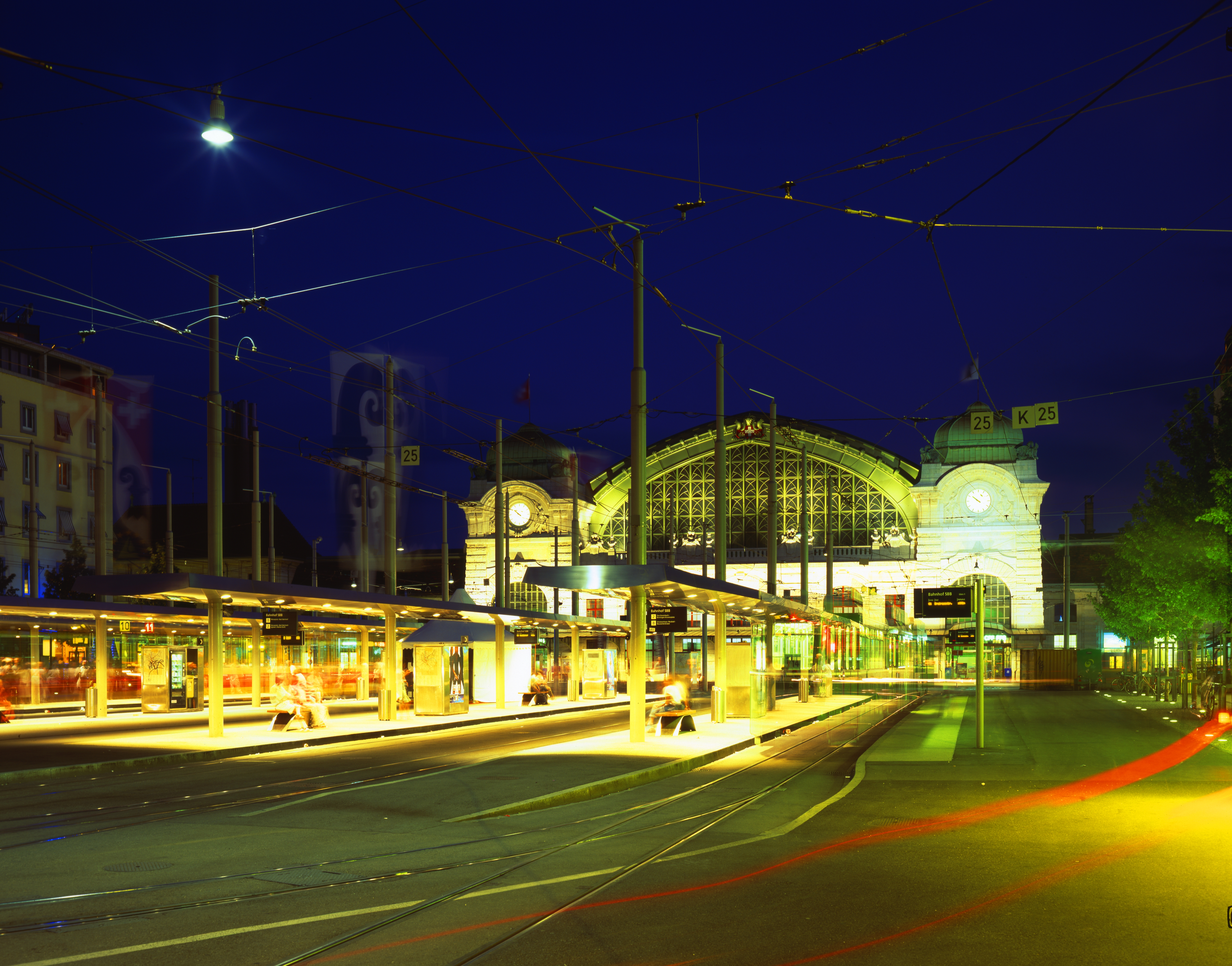 Basel central station. 7. Film: Fuji Velvia 50. Exposure: 8 minutes at f/22. Scanner: Epson 4990.